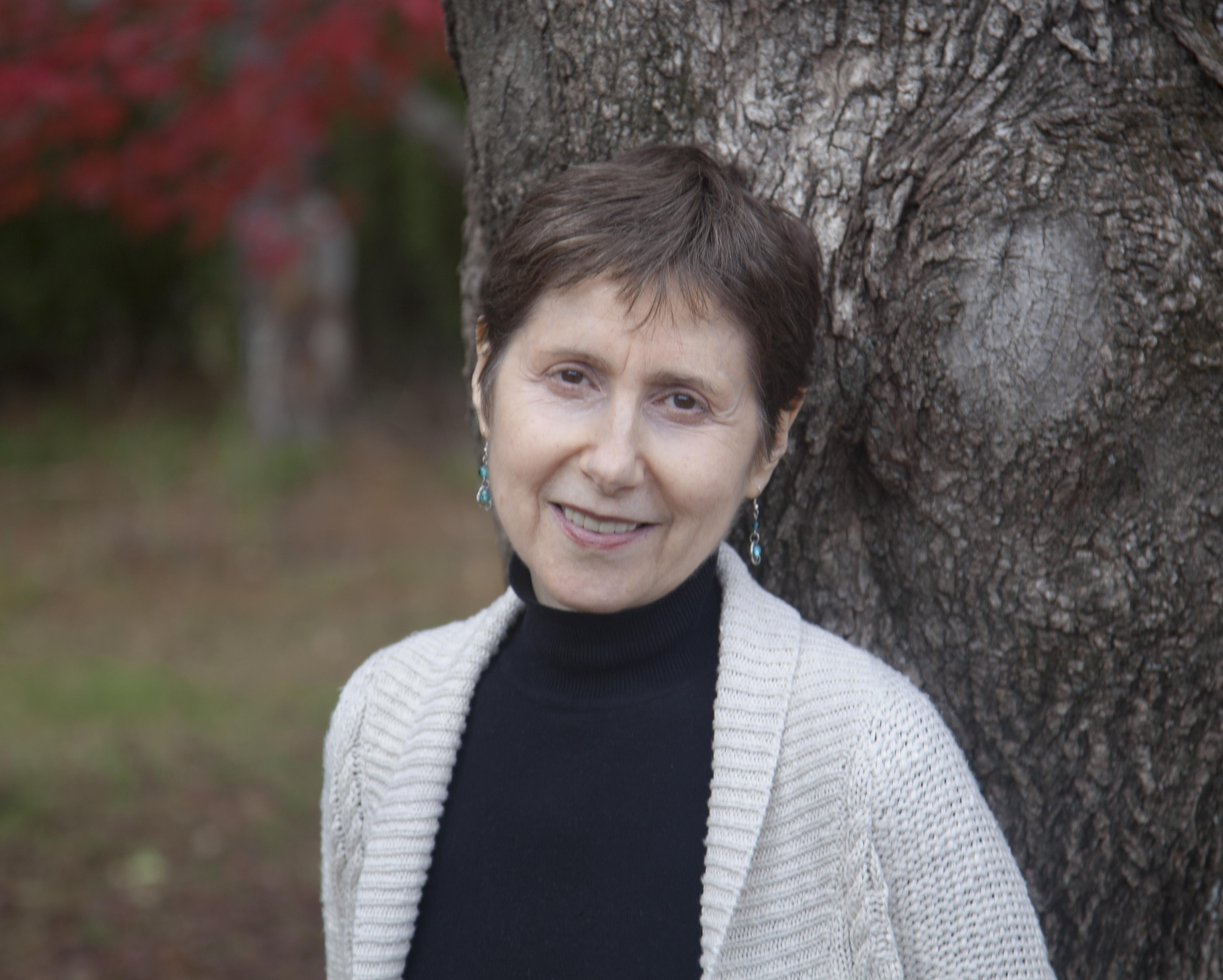 Julia Indichova, in Woodstock NY, 2011.